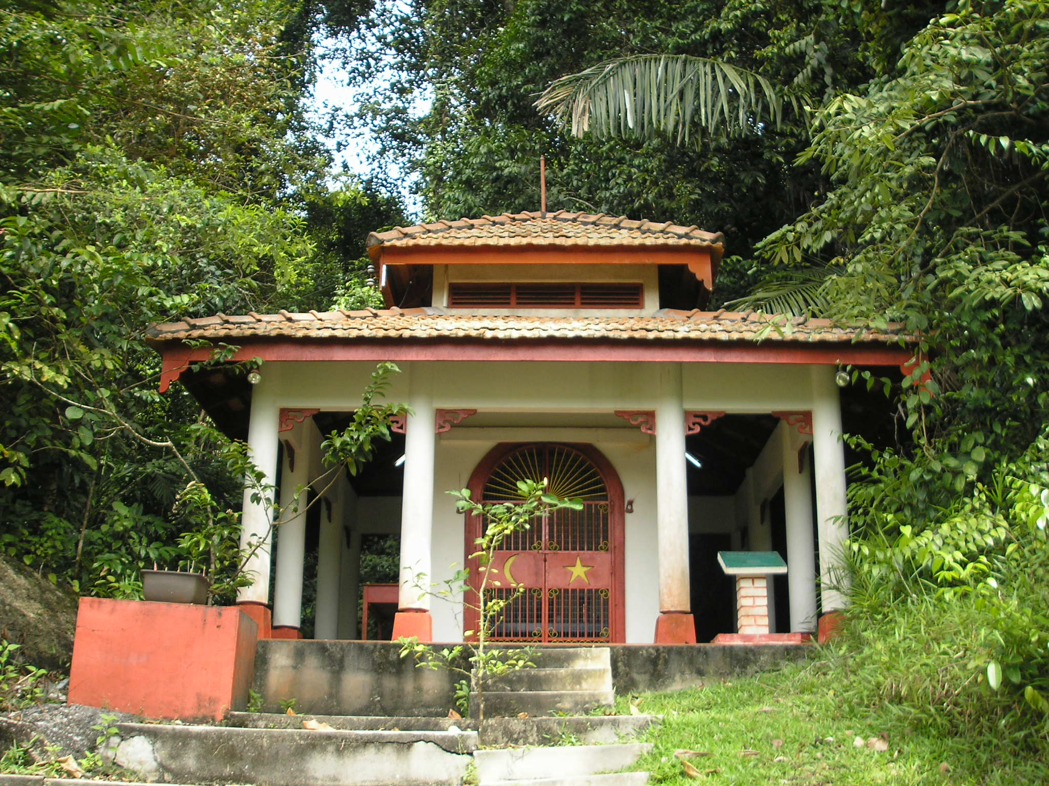 A so-called Datuk Panglima Hijau spirit shrine on the Pangkor Island.